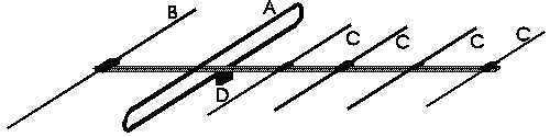 Drawing of a Yagi antenna.